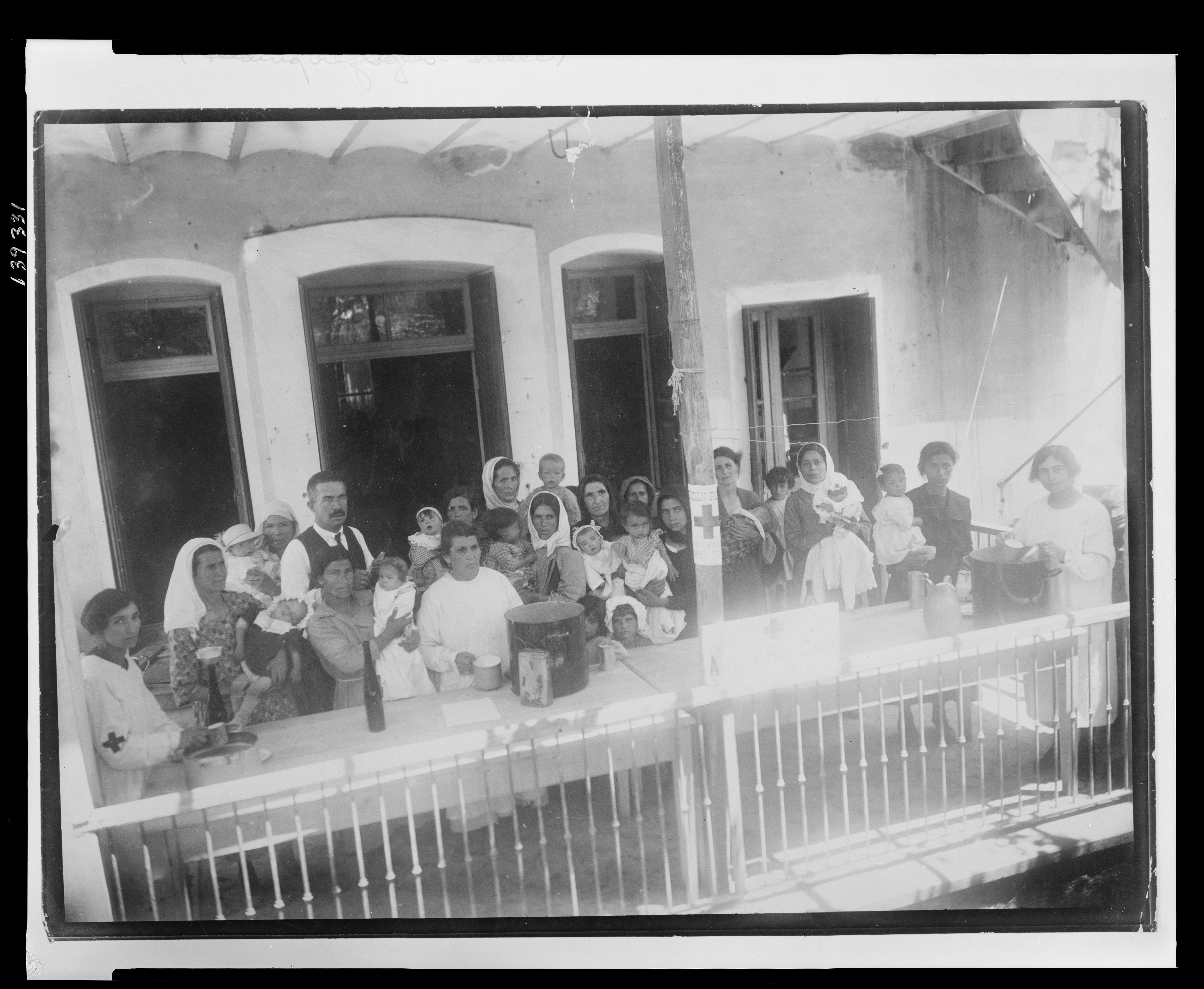 Title: The milk stations were by far the most important work of the Red Cross, as they were entirely responsible for saving the lives of thousands of babies At one milk station alone on [sic] the dangerous spring months, the total fed on the whole island reached as high at times as 3000. Abstract/medium: 1 photographic print.